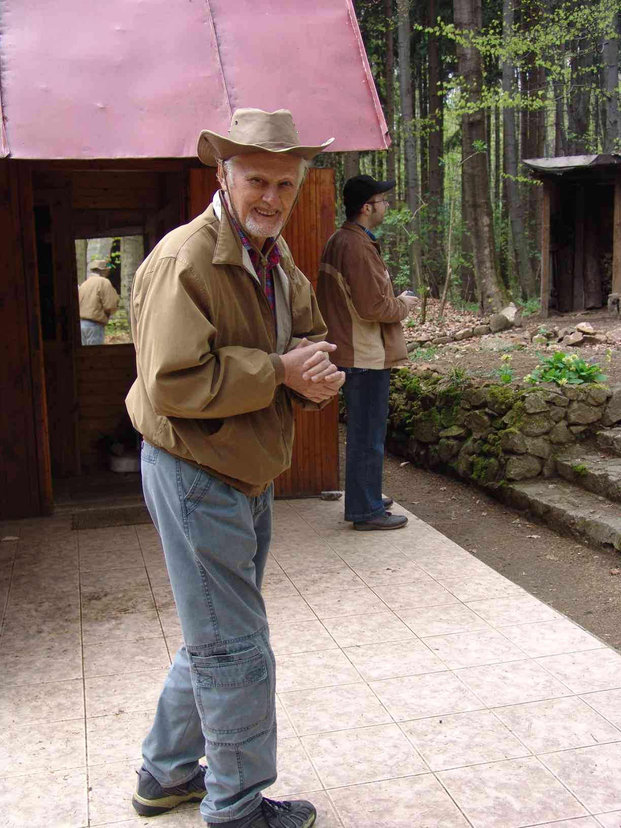 Ľudovít Lehen * 3rd June 1925 in Banská Bystrica, Slovakian painter, sculptor and chess composer